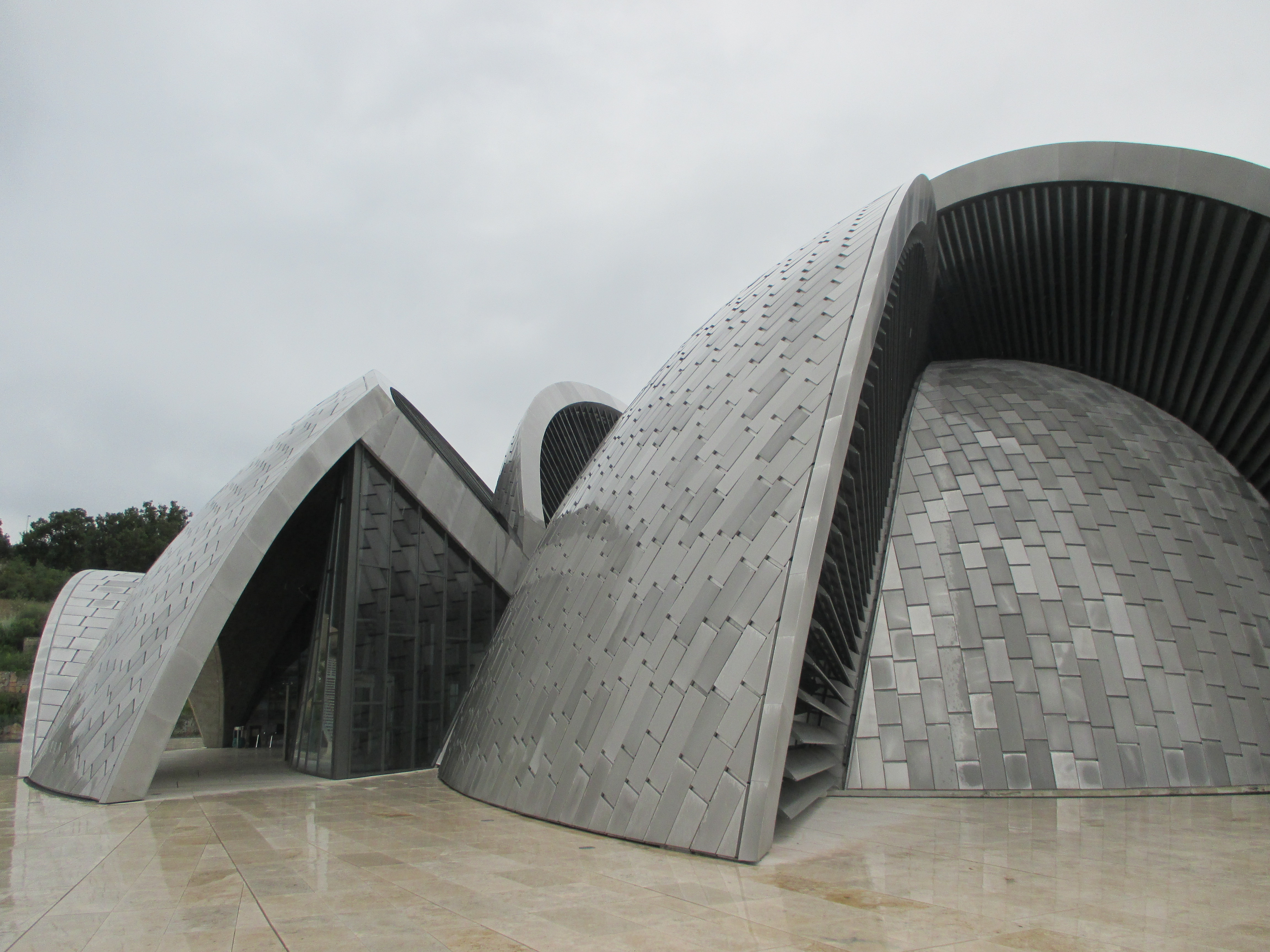 Rijeka Mosque